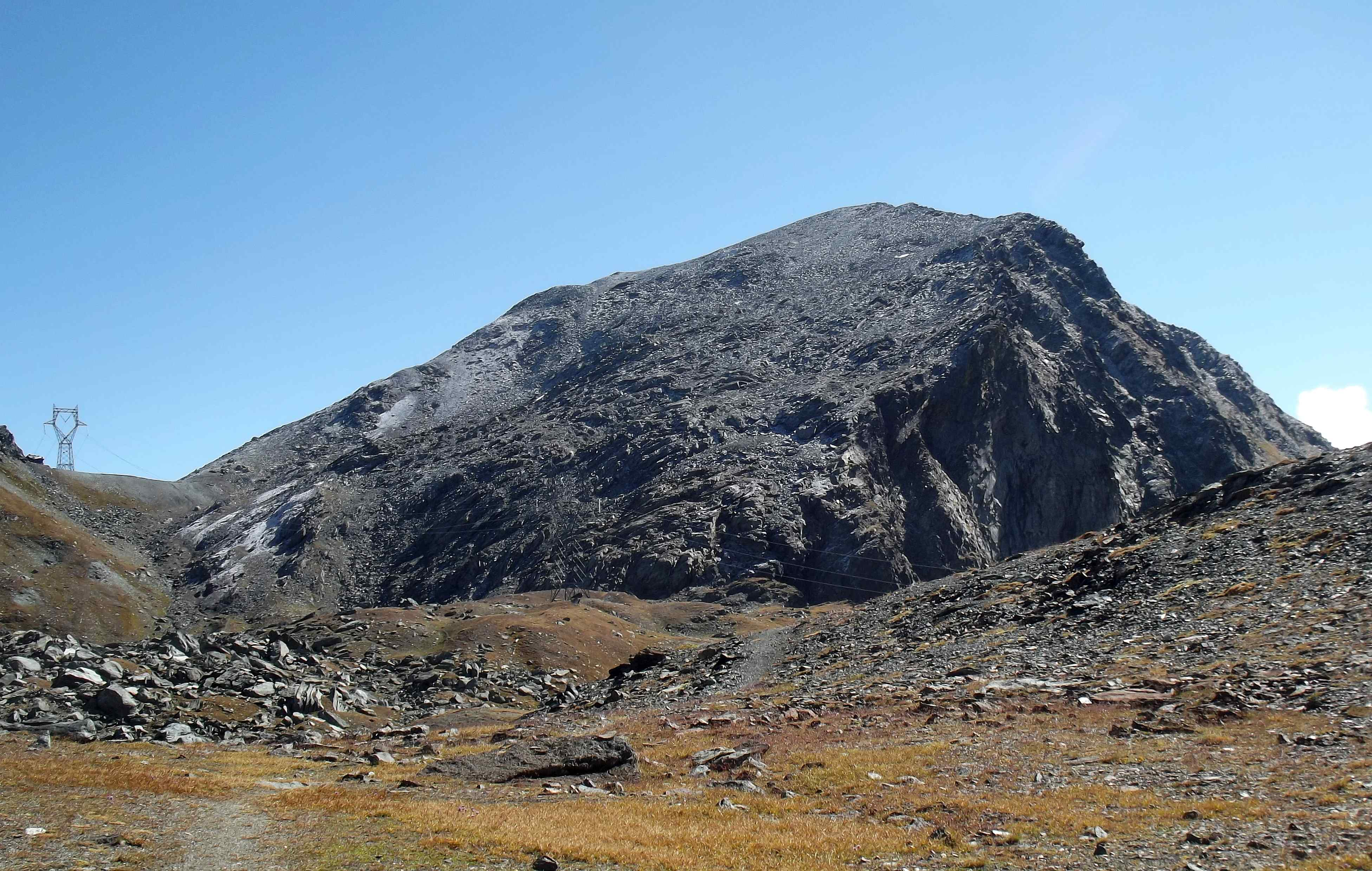 Tour-de-Ponton and Col Pontonnet seen from Cogne Valley (Aosta Valley, Italy)